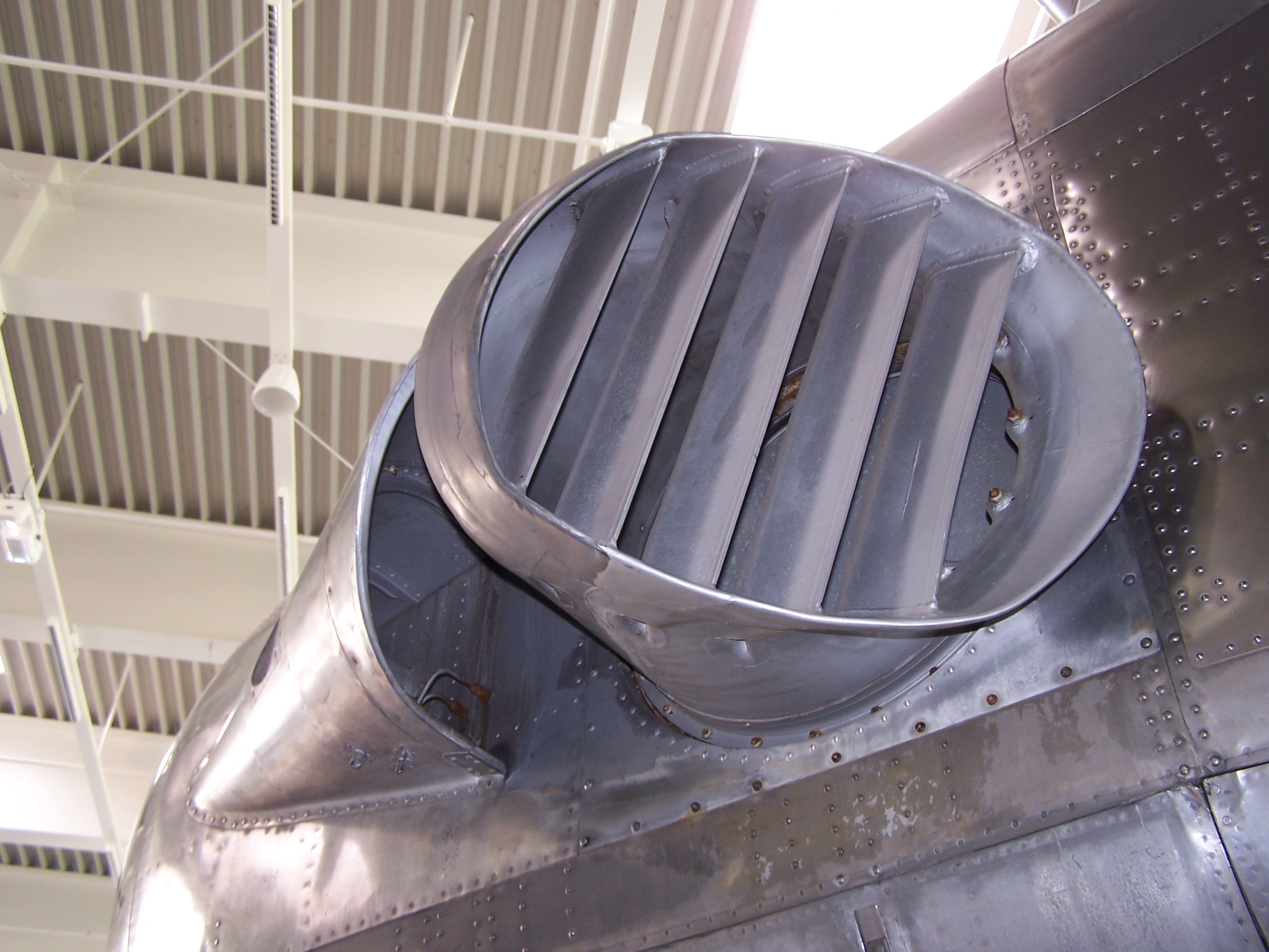 Dornier Do 31 E1 at Dornier Museum